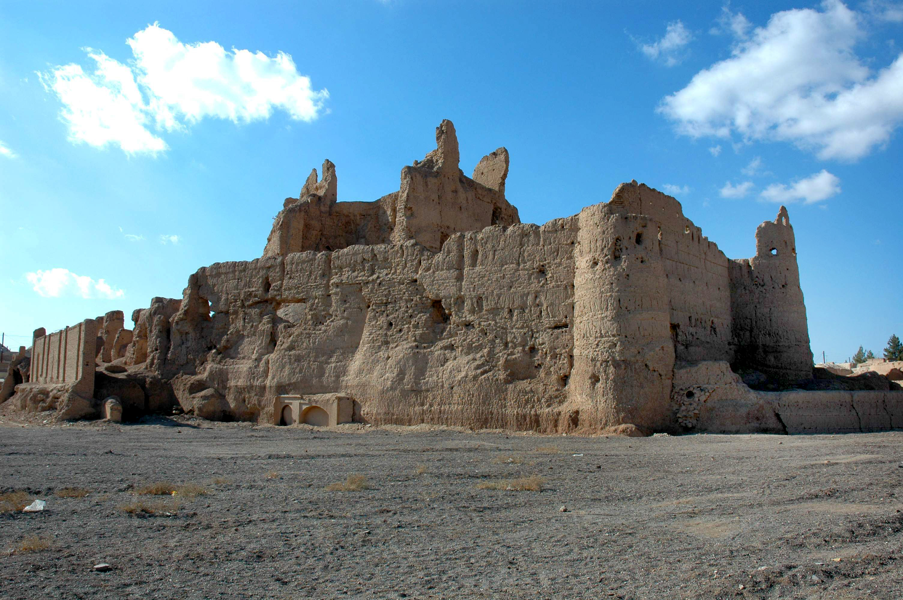 Narenj citadel